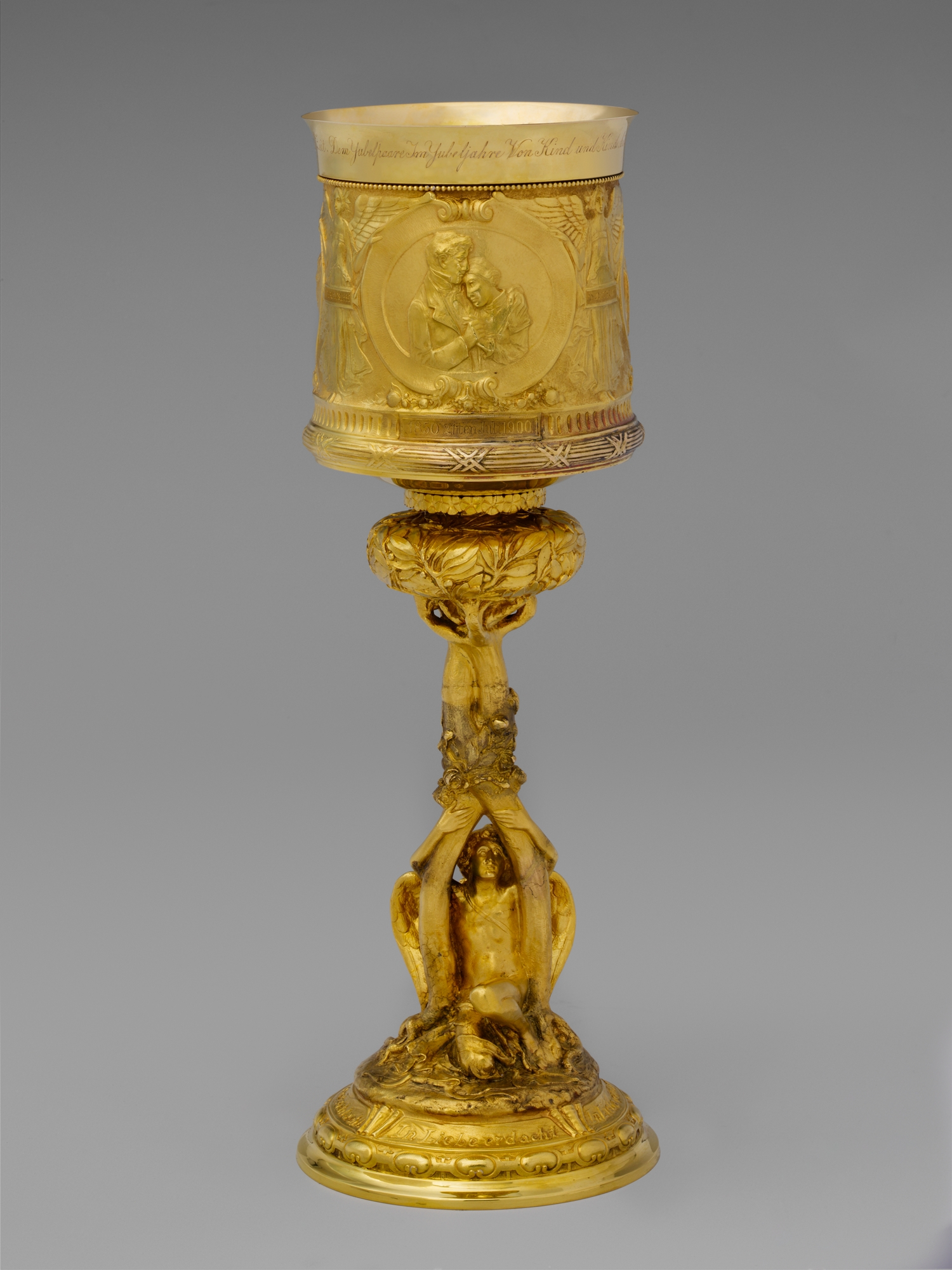 American; Standing cup; Metal